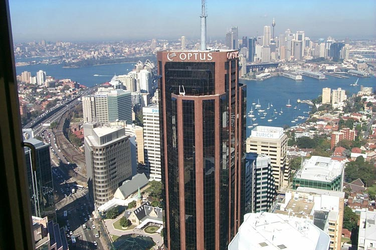 North Sydney, Australia: CBD from the air. Taken in 2000 by Sonia Boddi-Kyle The image (taken in 2000) shows North Sydney's high-rise commercial district from the centre facing south to Sydney CBD in the background. Sydney Opera House can be seen left of the Optus tower.